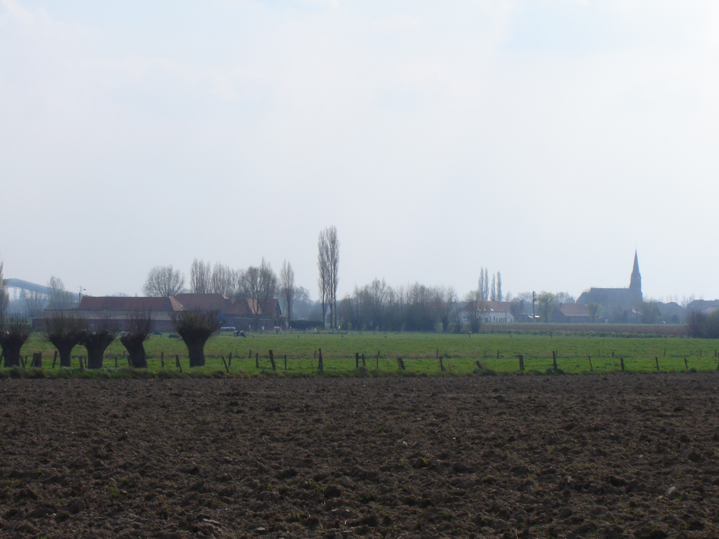 View on Ten Brielen. Church of Saint Eligius and indoor ski centre. Ten Brielen, Comines-Warneton, Hainaut, Belgium